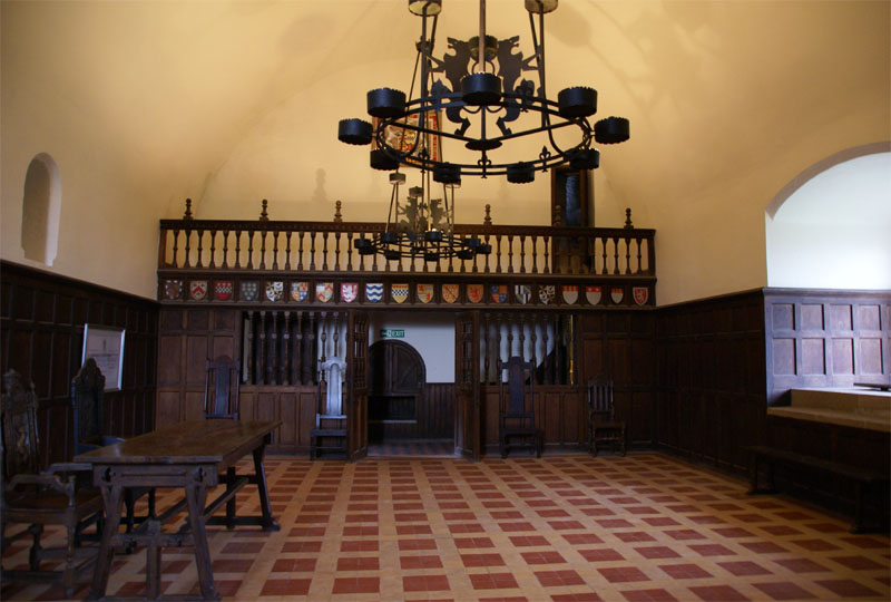 Doune Castle (Scotland) - great hall